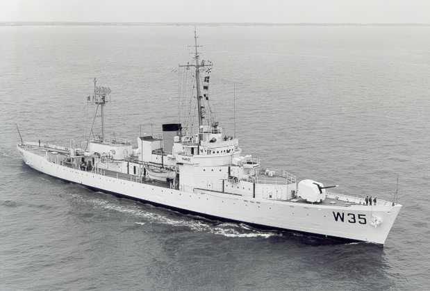 USCGC Ingham (WHEC-35), A photo of the cutter Ingham. The Ingham, circa 1965. She still carries a 5"-38 caliber main battery and ASW depth charge projectors but her 40 mm anti-aircraft cannons have been removed.